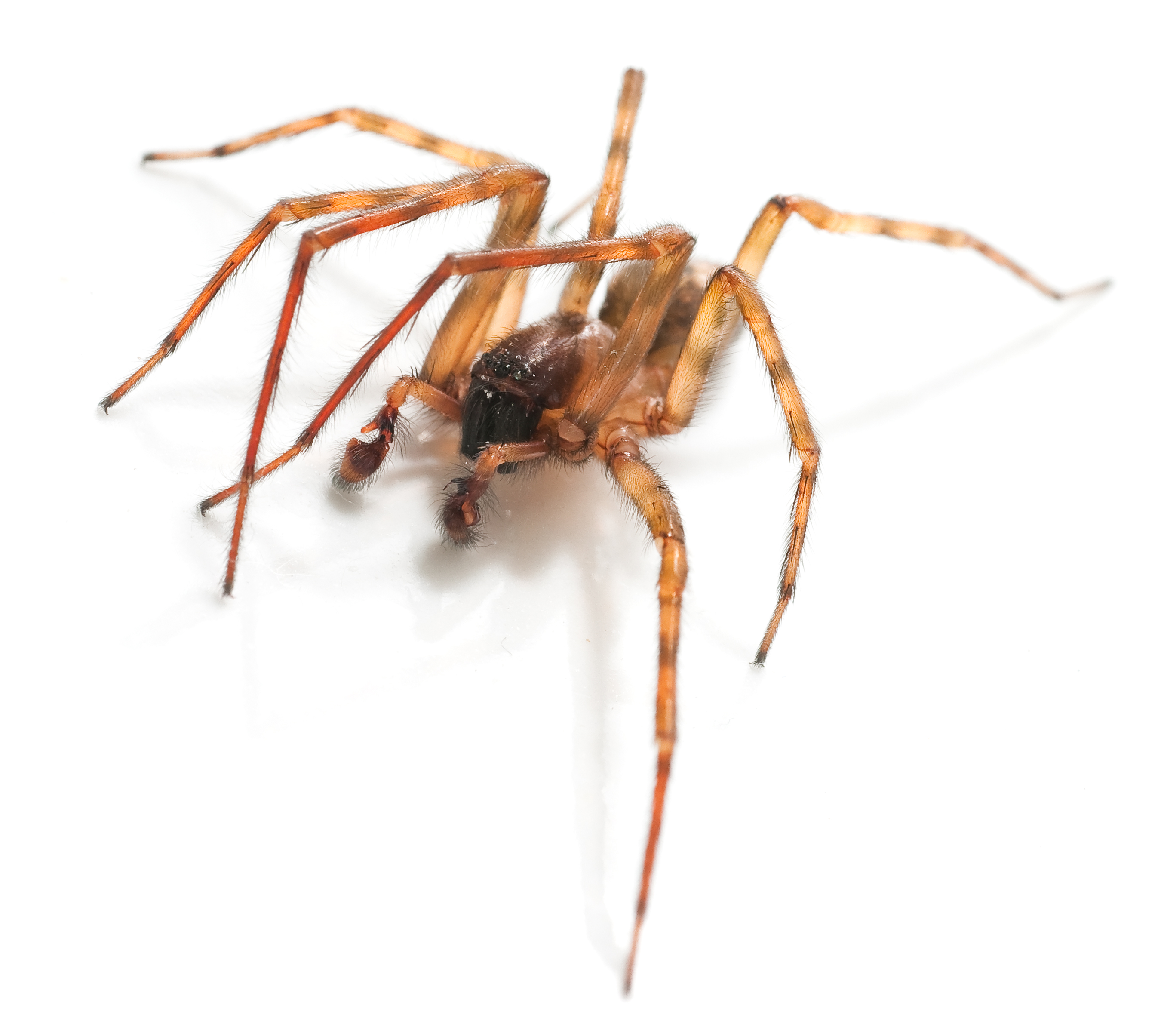 Male Amaurobius similis, a common European house spider